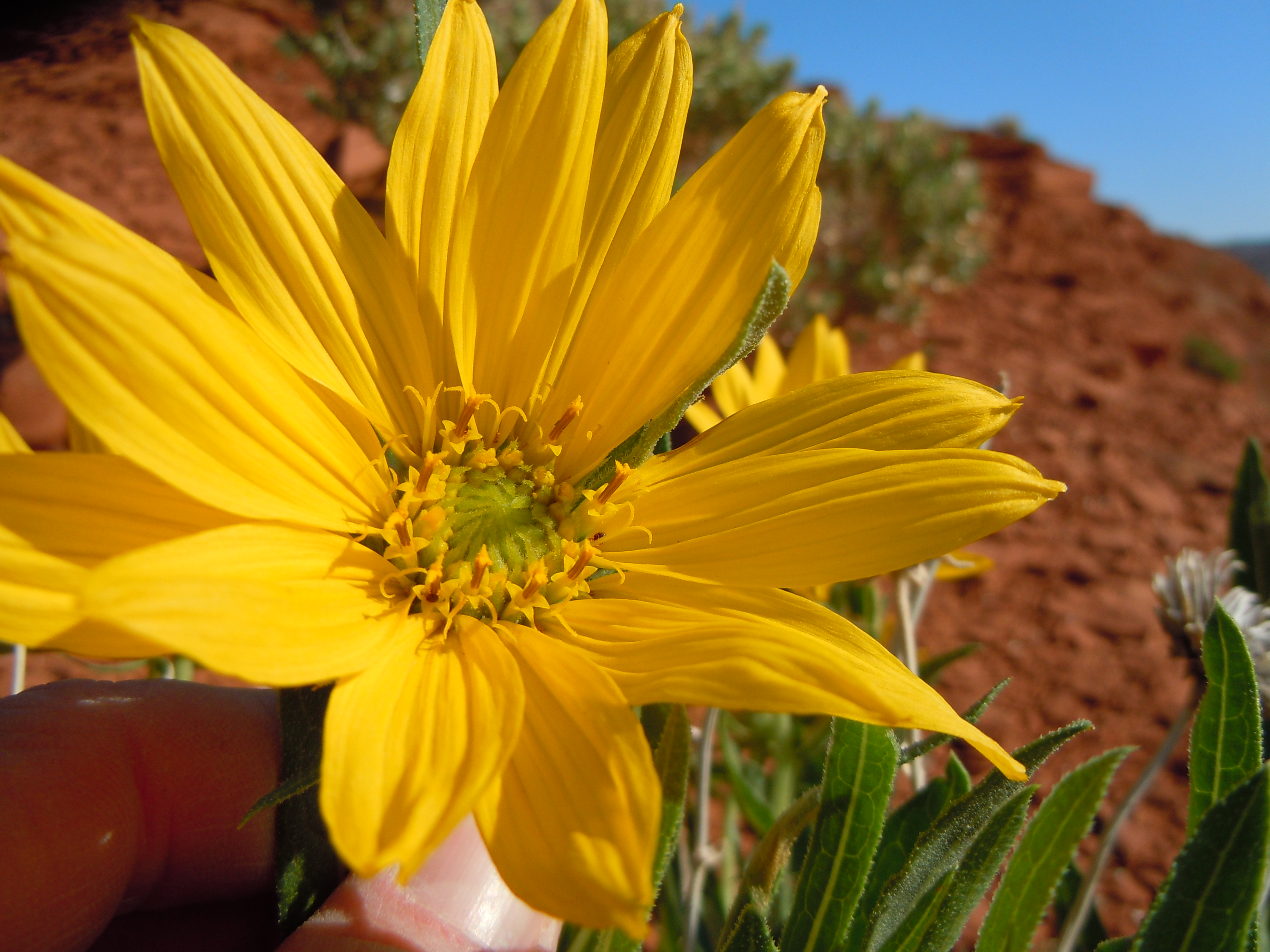 Seemingly most abundant on the red silt-sandstones of the Chugwater Formation, the scabrous stiff leaves are distinctive and persist in desiccated condition over the winter.